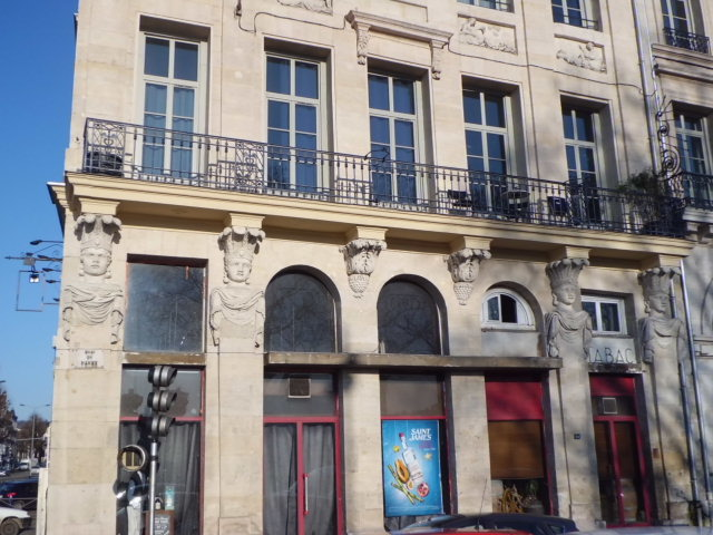 House, early 19th century (Rouen, Normandy)